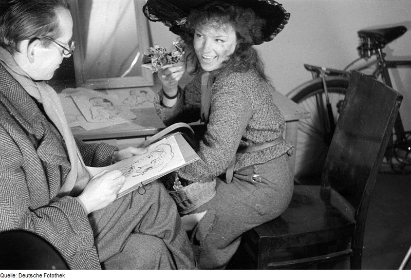 Original image description from the Deutsche Fotothek In der Hauptrolle Ingeborg von Kusserow als Eliza Doolittle